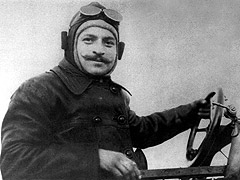 Yüzbaşı Fethi Bey